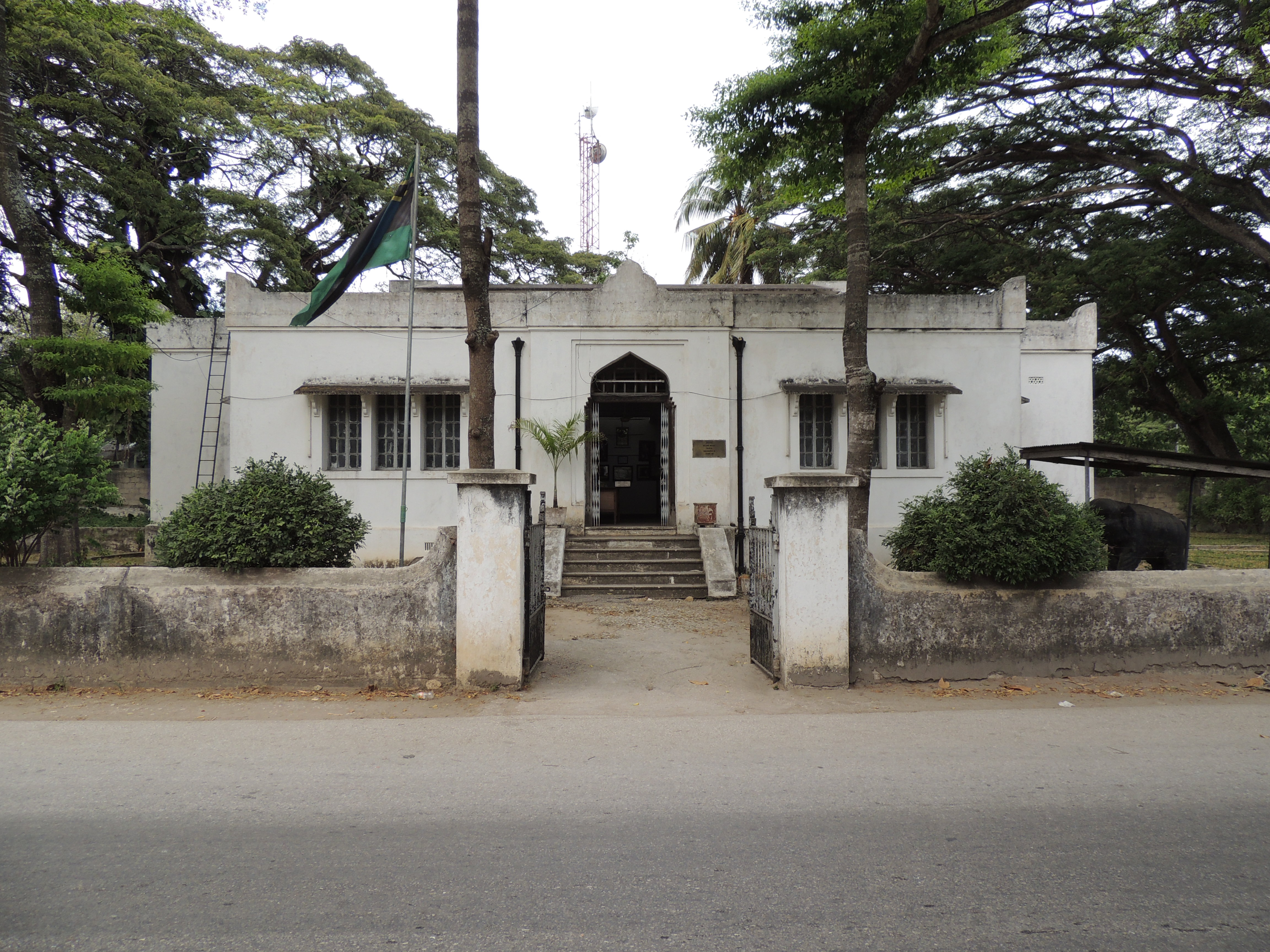 Zanzibar Natural History Museum in Zanzibar City (or Zanzibar Town), Zanzibar (Tanzania).